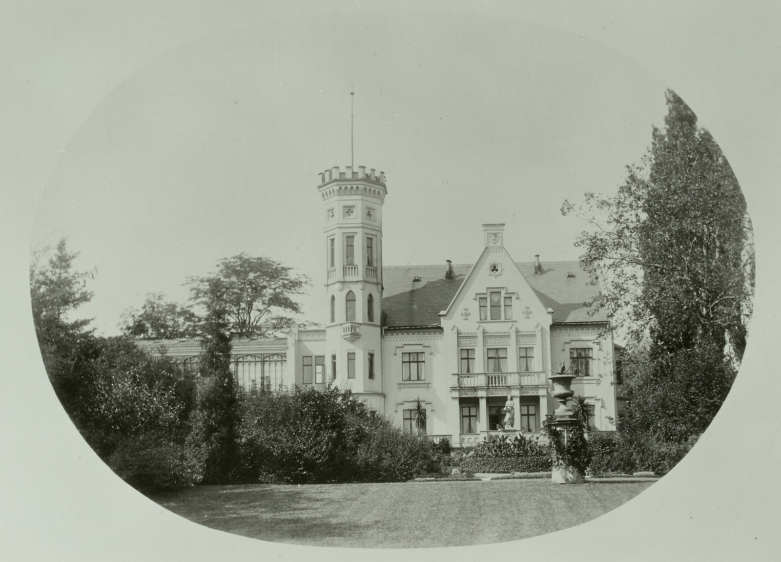 the Mohrenhaus, a manor house in Radebeul, Germany, picture from about 1900 by Ermenegildo Antonio Donadini